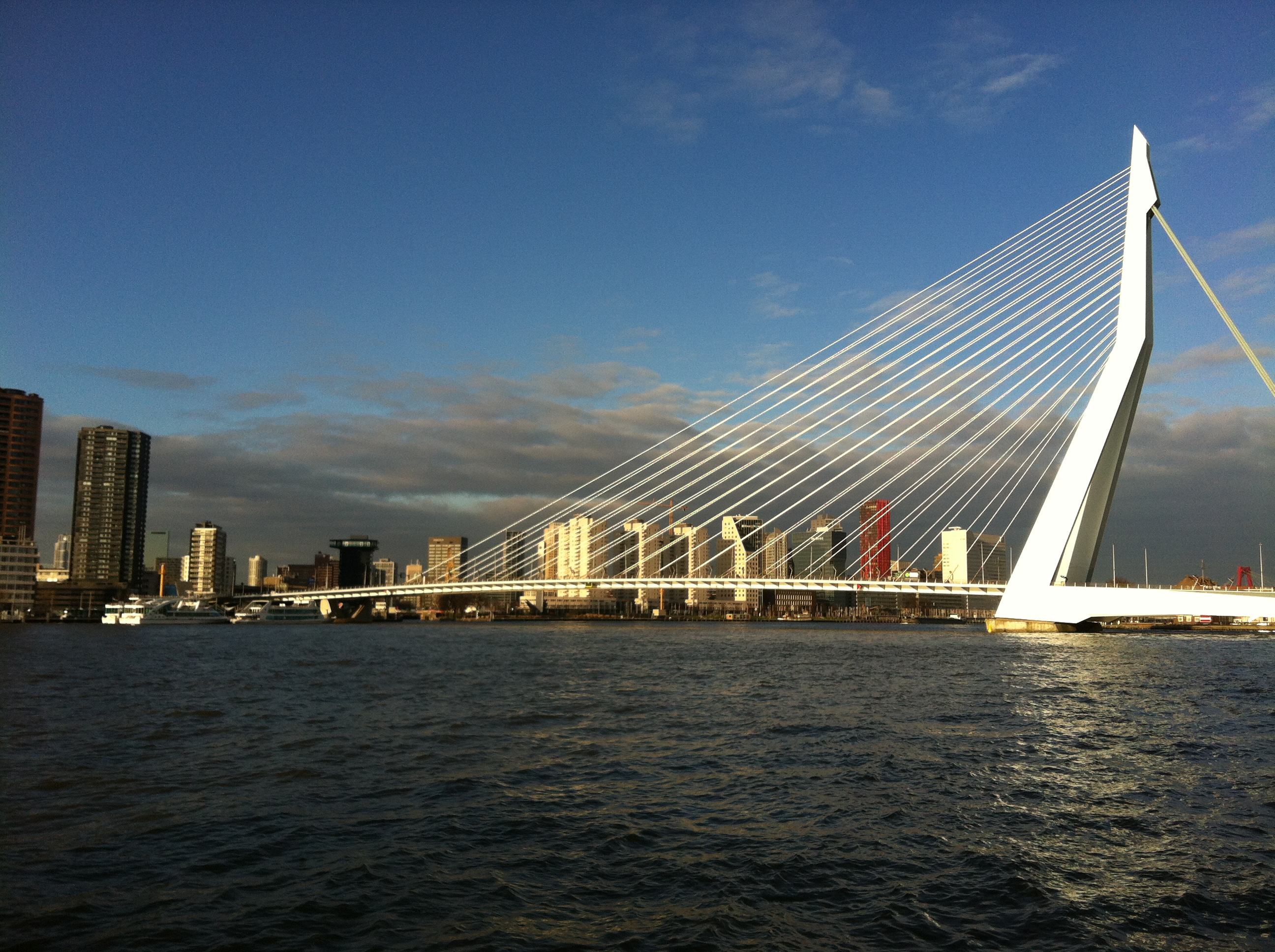 Part of the Rotterdam skyline viewed from Kop van Zuid.